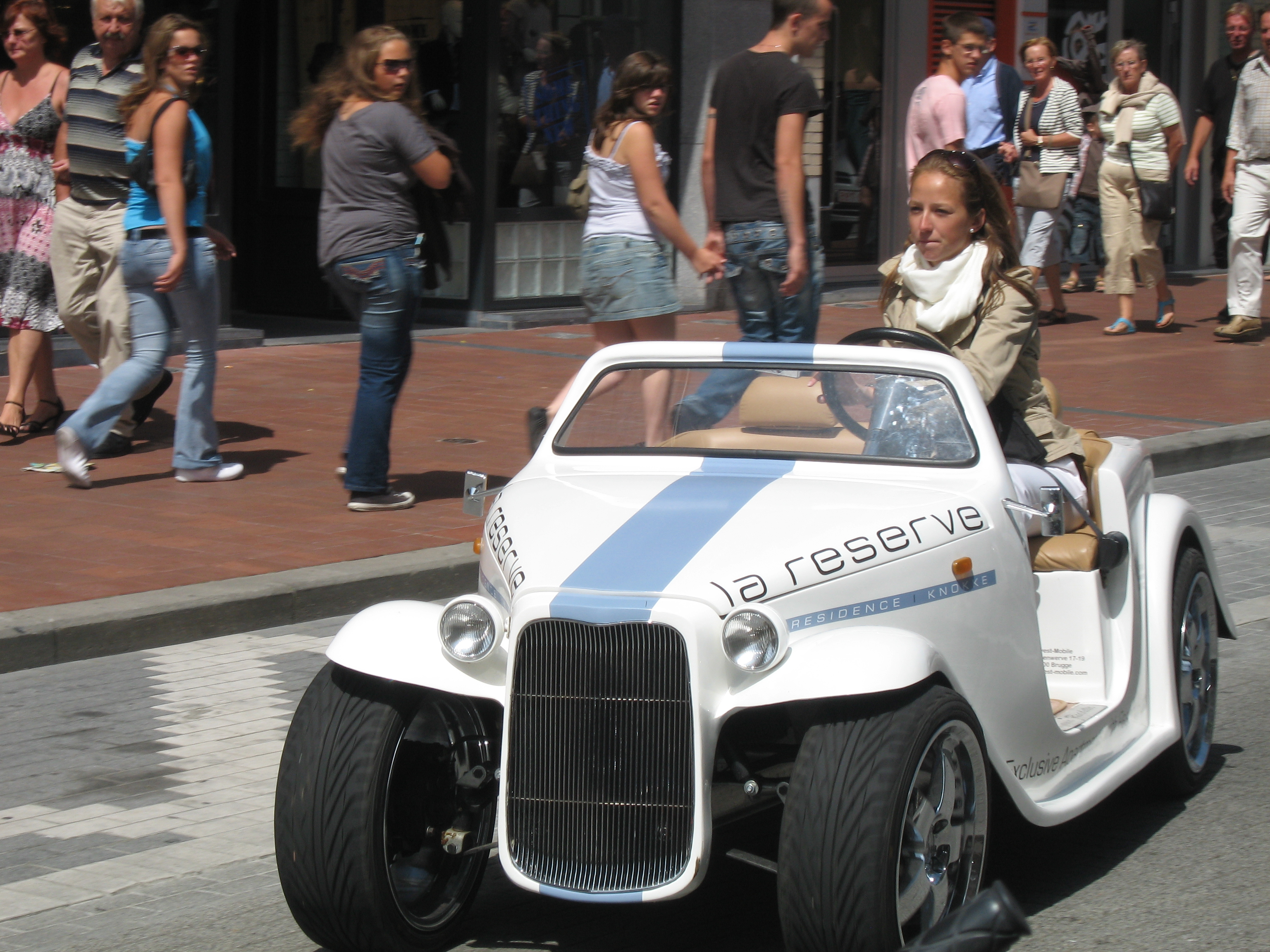 electric customer cars from General Motors, picture taken Lippenslaan, Knokke-Heist